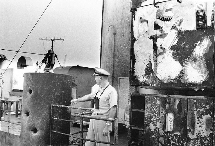 Commander William L. McGonagle, USN, Commanding Officer, USS Liberty (AGTR-5) (June 16, 1967)